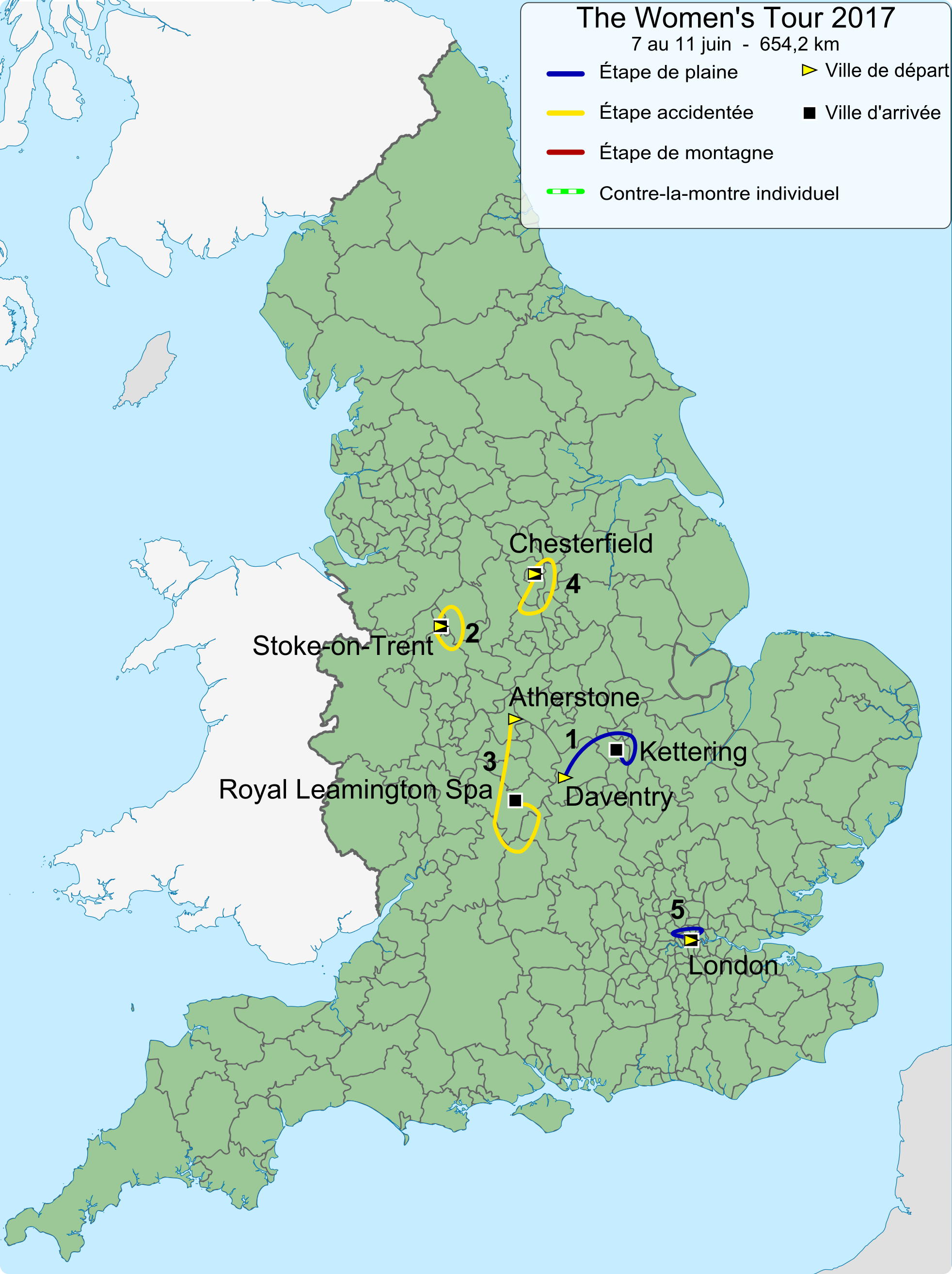 Overview map of the Women's Tour 2017.